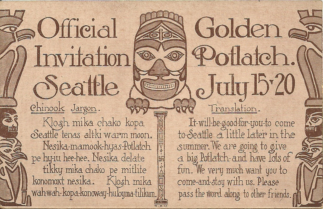 Official Invitation Seattle Golden Potlatch. July 15-20 1912, Golden Potlatch Seattle, Washington, July 15 - 20 1912